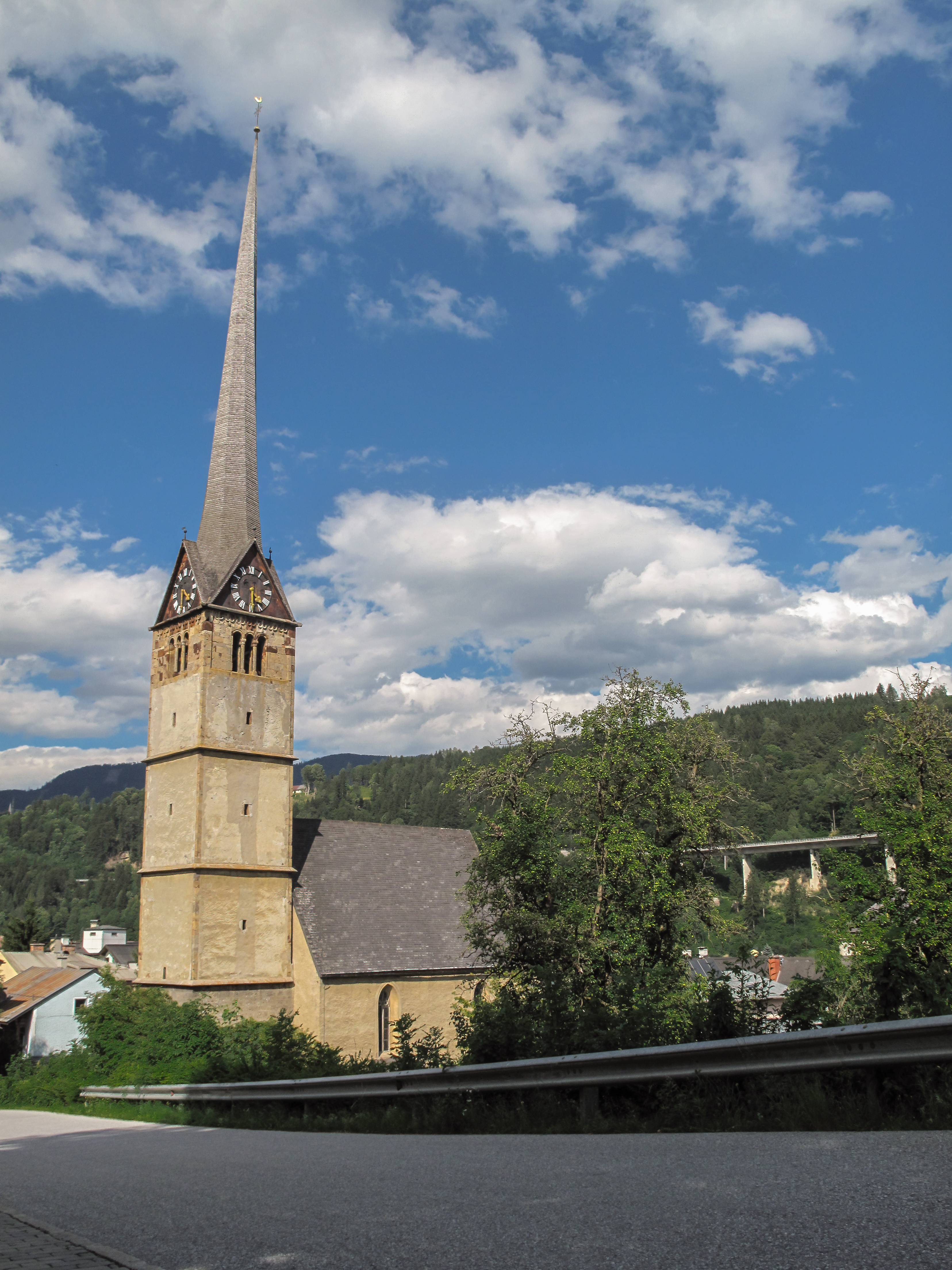 Bischofshofen, church